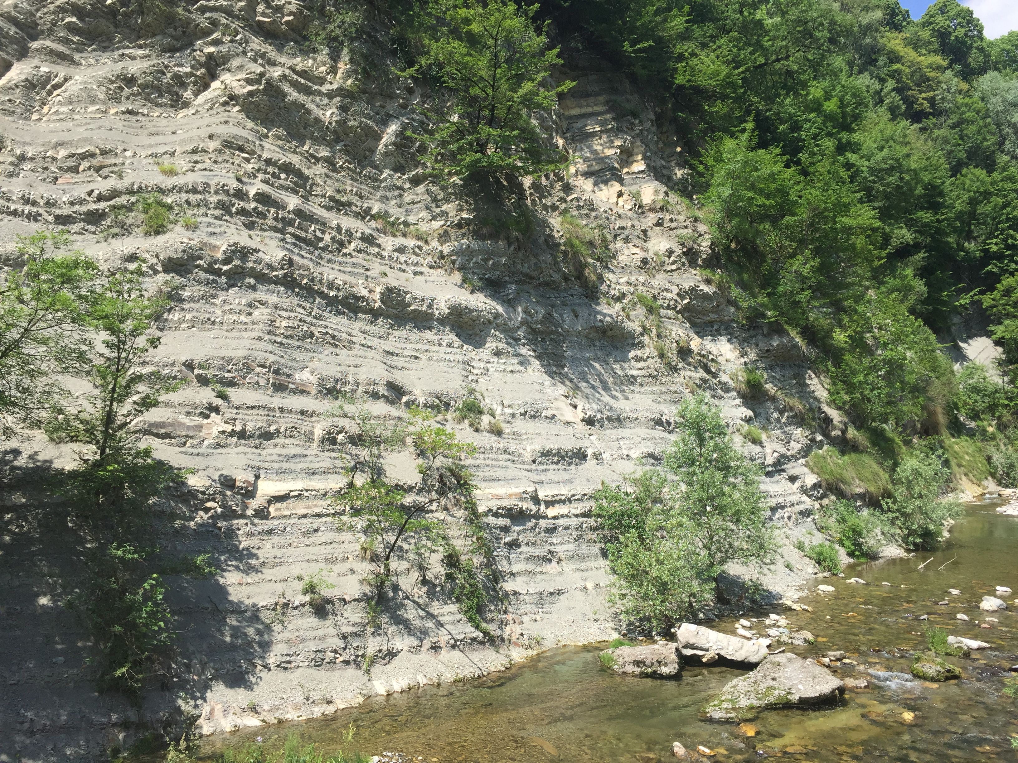 The Parco delle gole della Breggia is situated below the village Morbio Inferiore